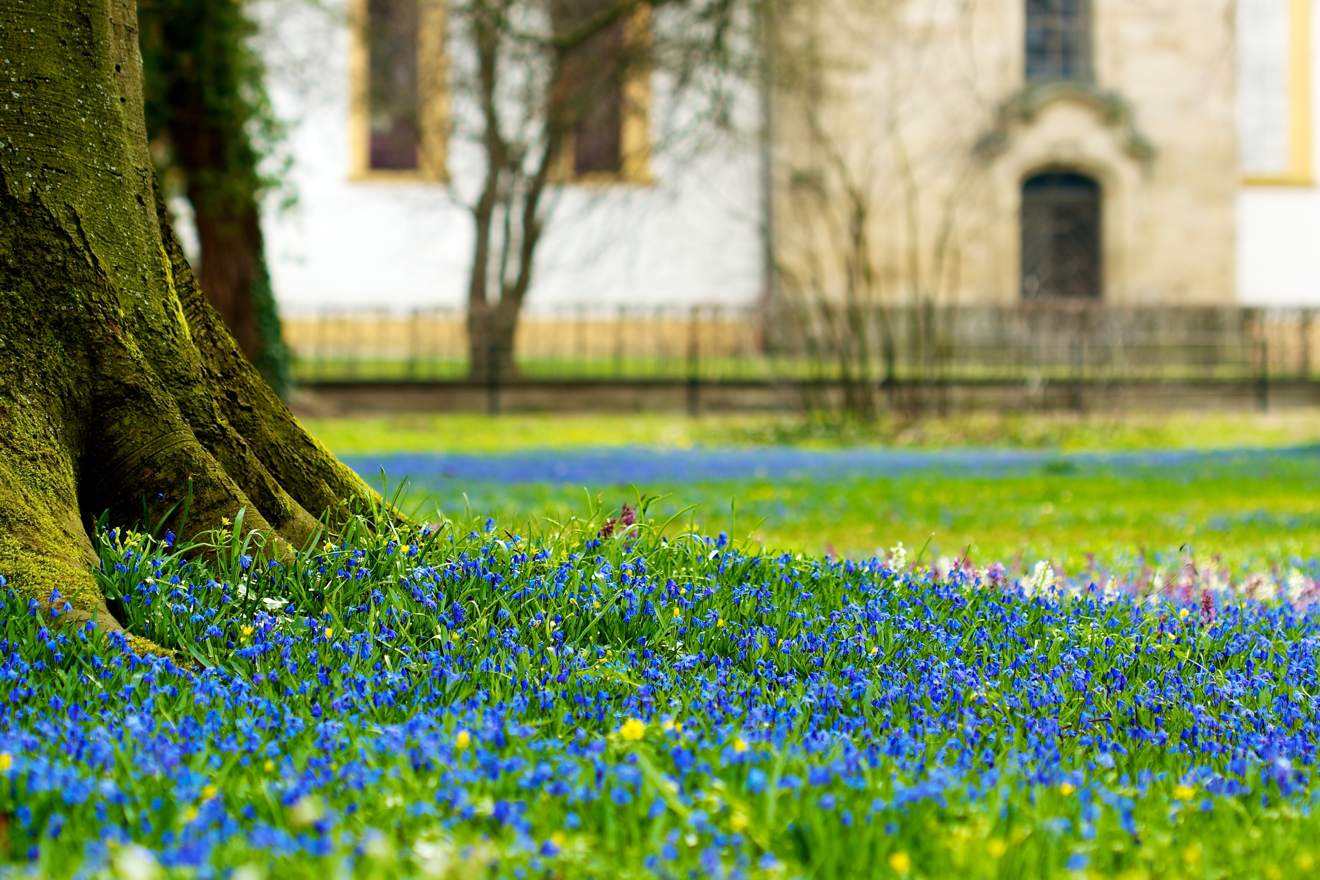 Scilla flowers in the garden of Ellingen Castle (Bavaria, Germany)